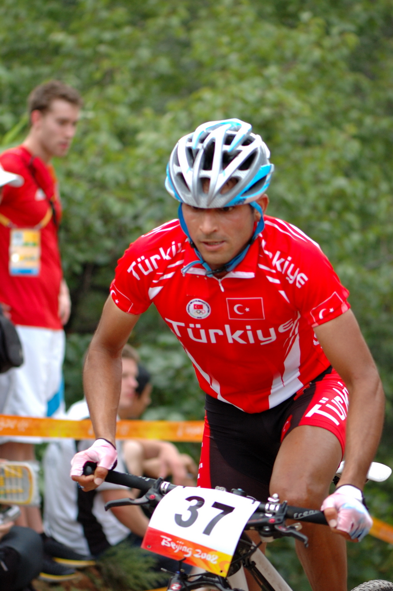 Cycling at the 2008 Summer Olympics – Men's cross-country - Bilal Akgul (Turkey)